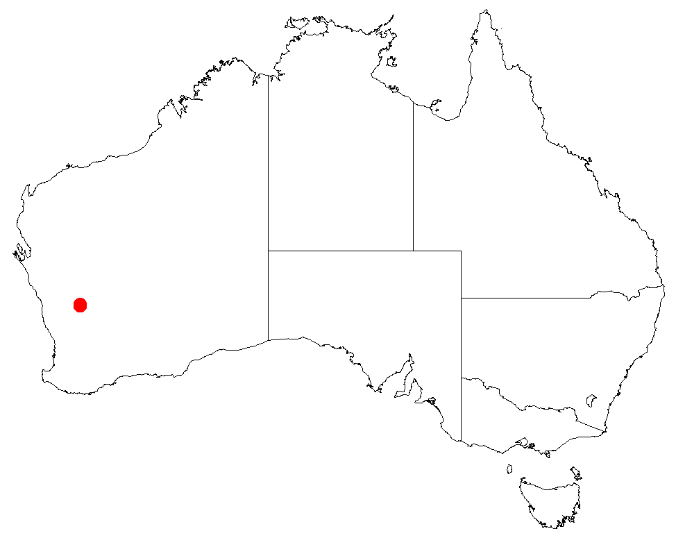 Acacia unguicula occurrence data from Australasia Virtual Herbarium downloaded from on 8 December 2018